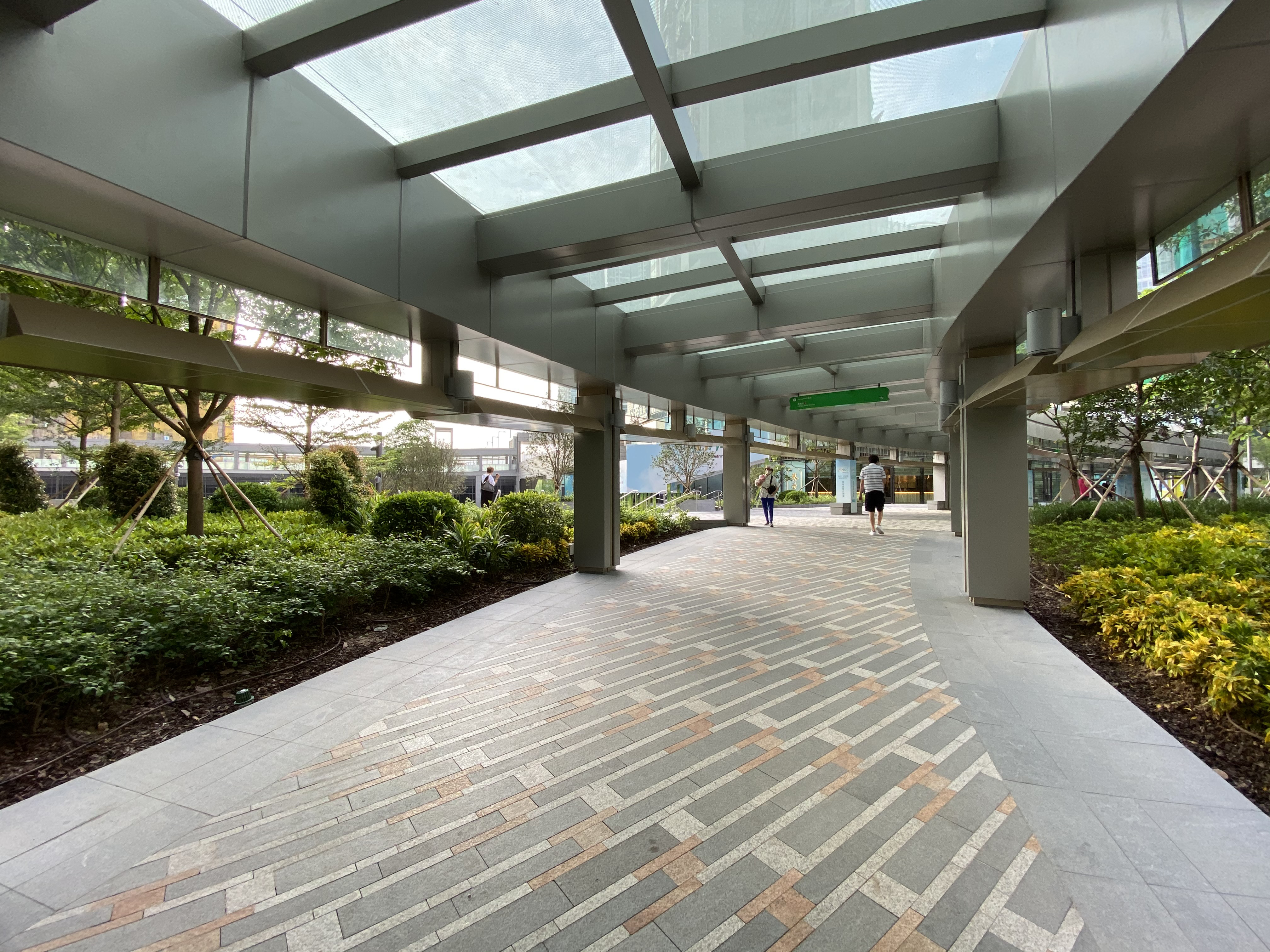 THE LOHAS Covered walkway to Phase 4